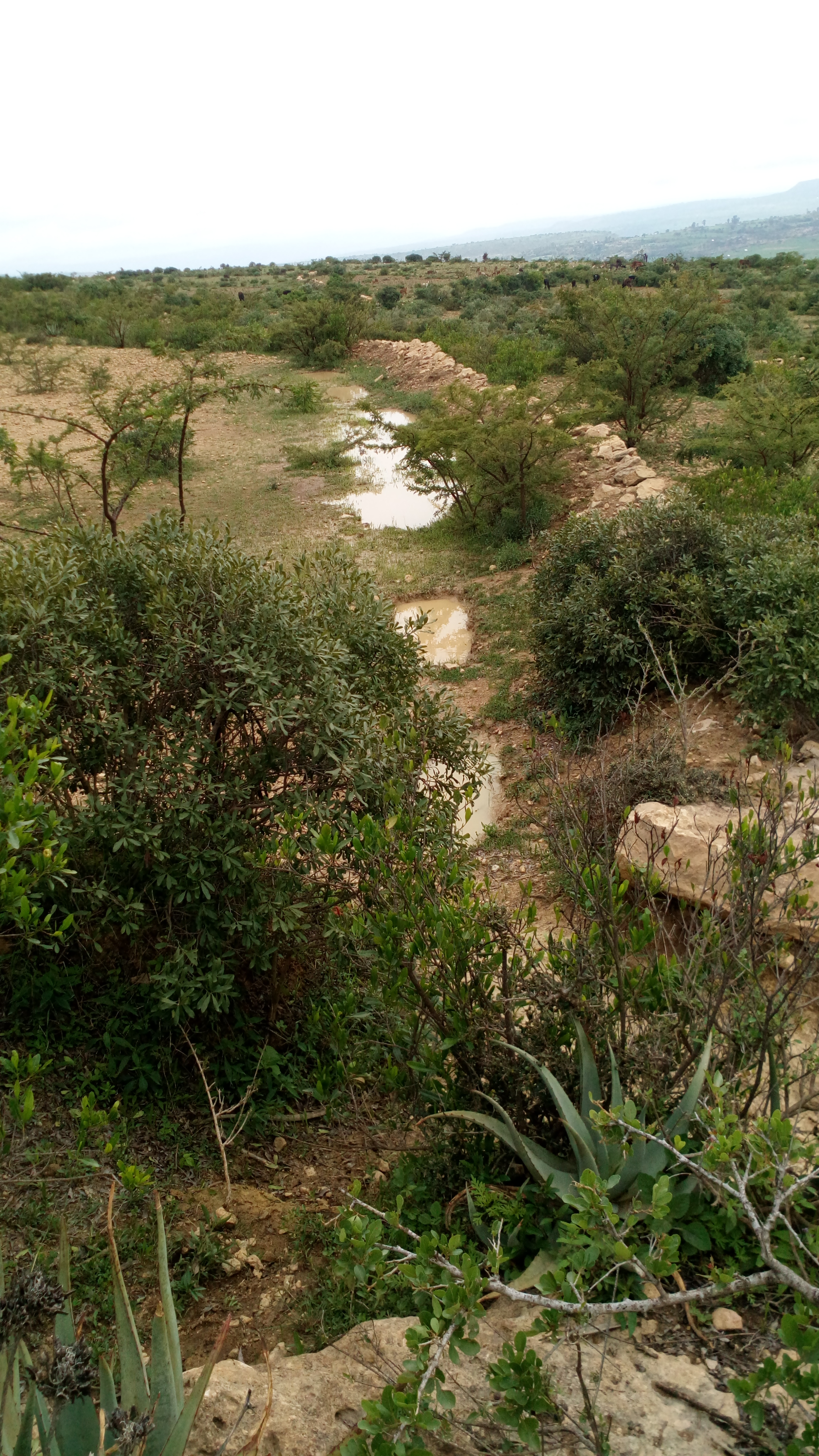 May Genet2